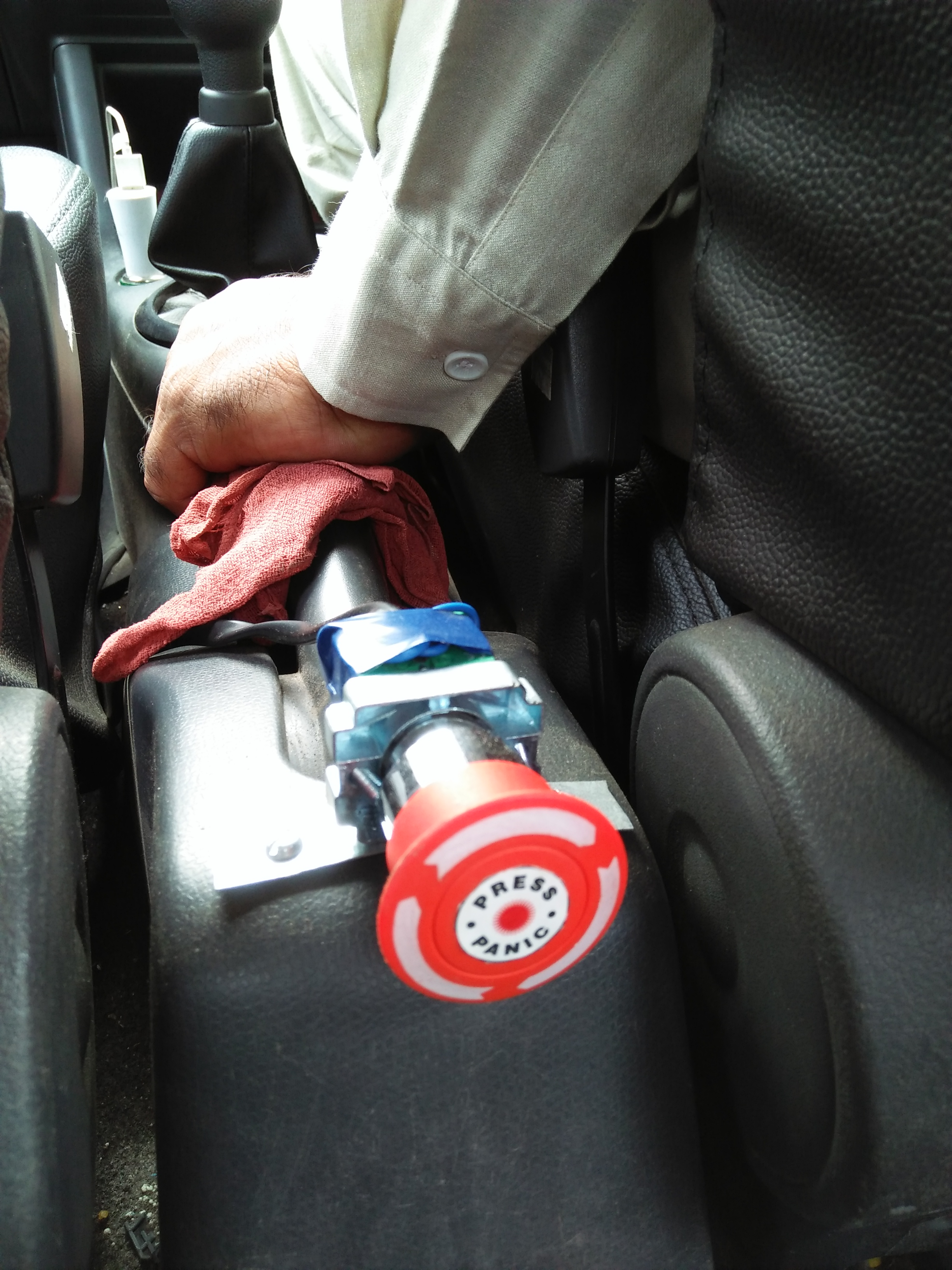 This was taken in Kolkata.